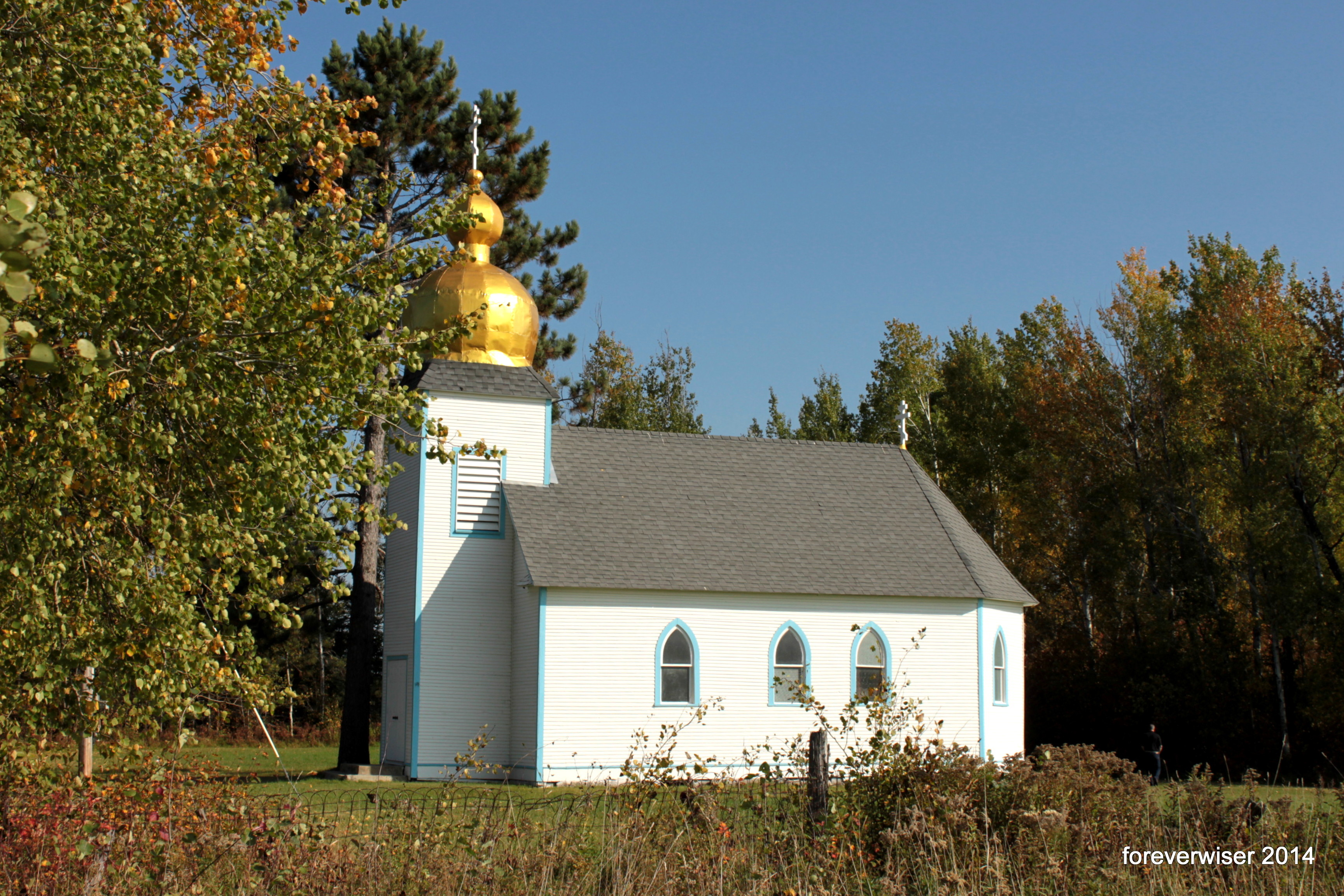 Sts. Peter and Paul Russian Orthodox Church, Minnesota Highway 65 Bramble vicinity